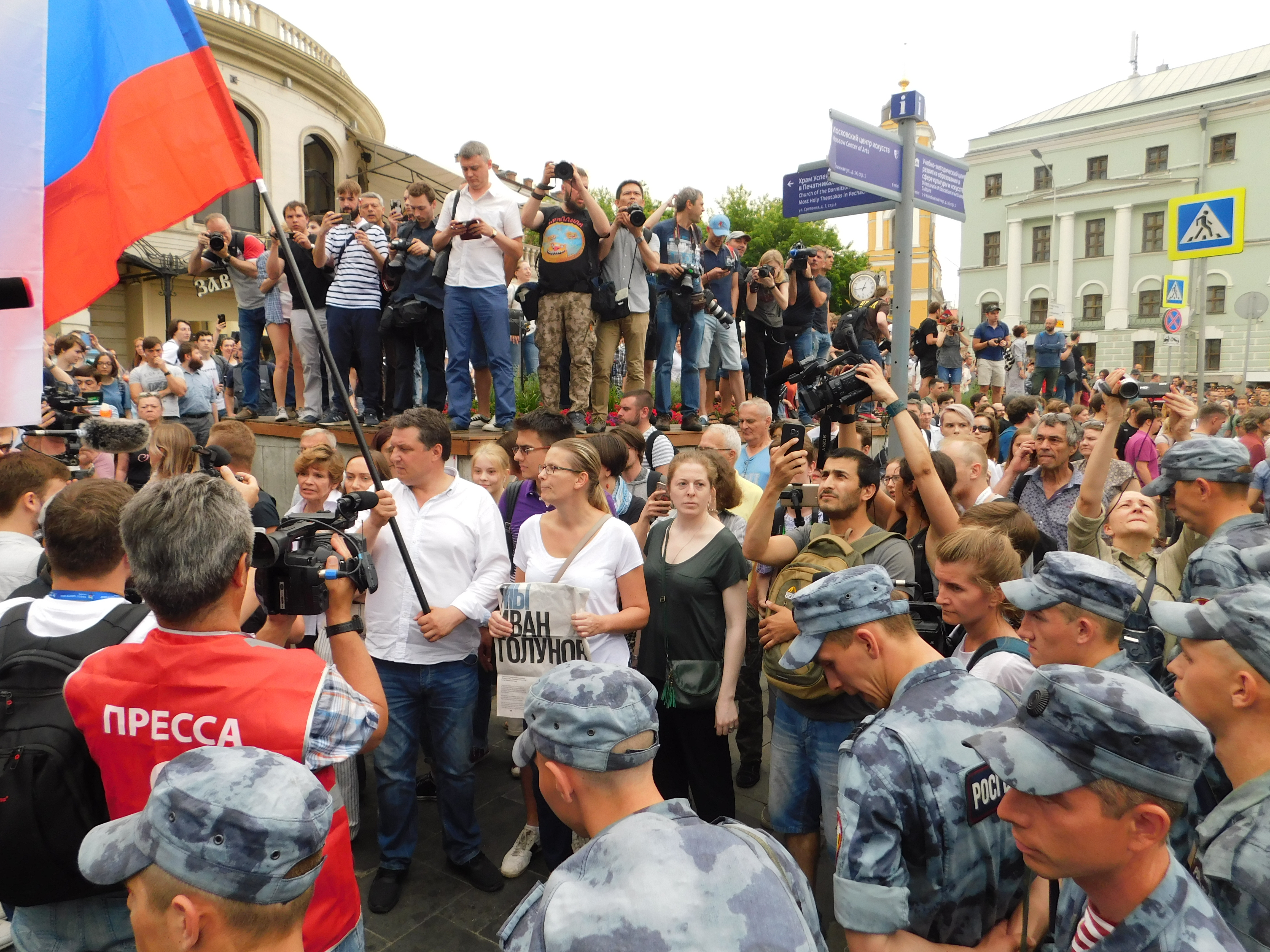 Golunov march